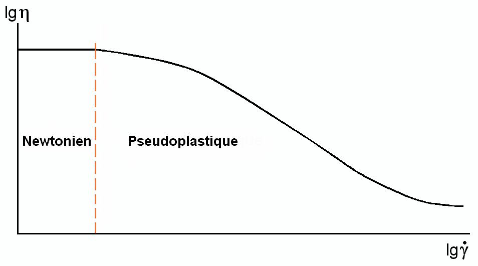 Variation of viscosity with shear rate for a polymer melt: newtonian and pseudoplastic (shear thinning fluid) flow behaviours - logarithmic scales.